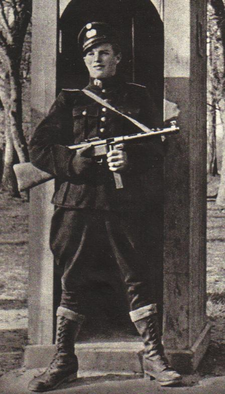 Armed policeman from the Danish corps HIPO (Hilfspolizei) stands guard at the Schalburg School in 1944-1945 during the German occupation of Denmark